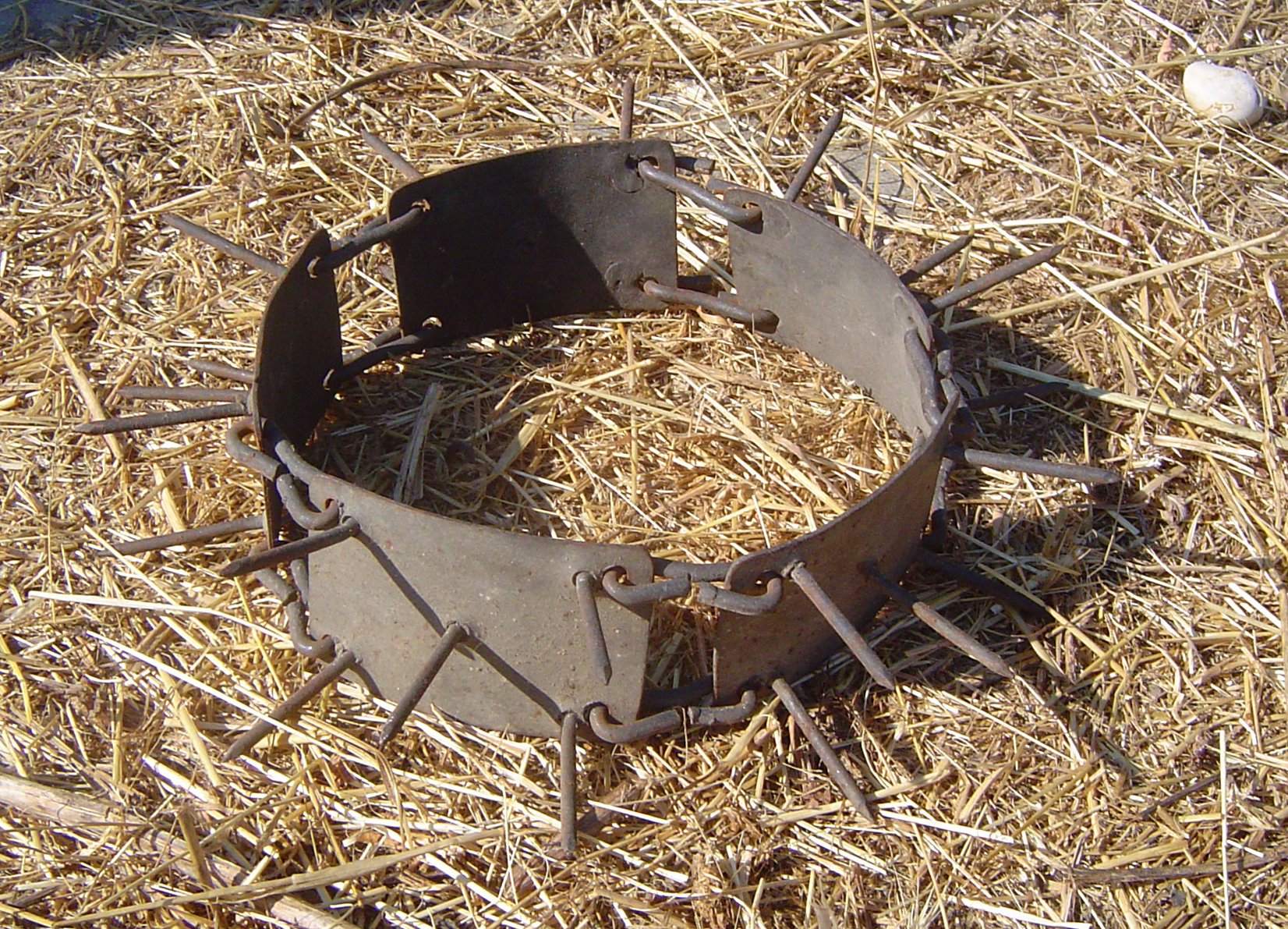 A roccale or vreccale, the spiked iron collar which is worn to protect the necks of Pastore Maremmano-Abruzzese ("Maremman Shepherd") dogs when used for their traditional purpose of defending sheep against wolves and other predators. Photographed at Porto Vecchio, Ponzano Romano, province of Rome, Lazio, Italy.